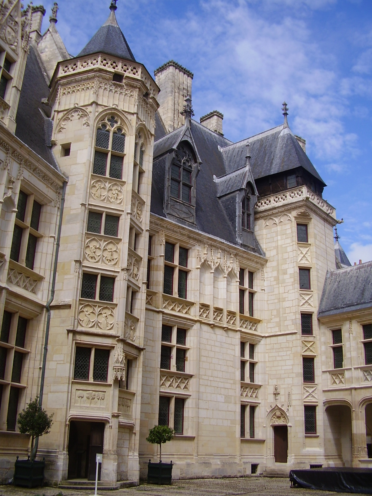 View of the eastern part of the courtyard - Jacques Coeur Palace - Bourges, France